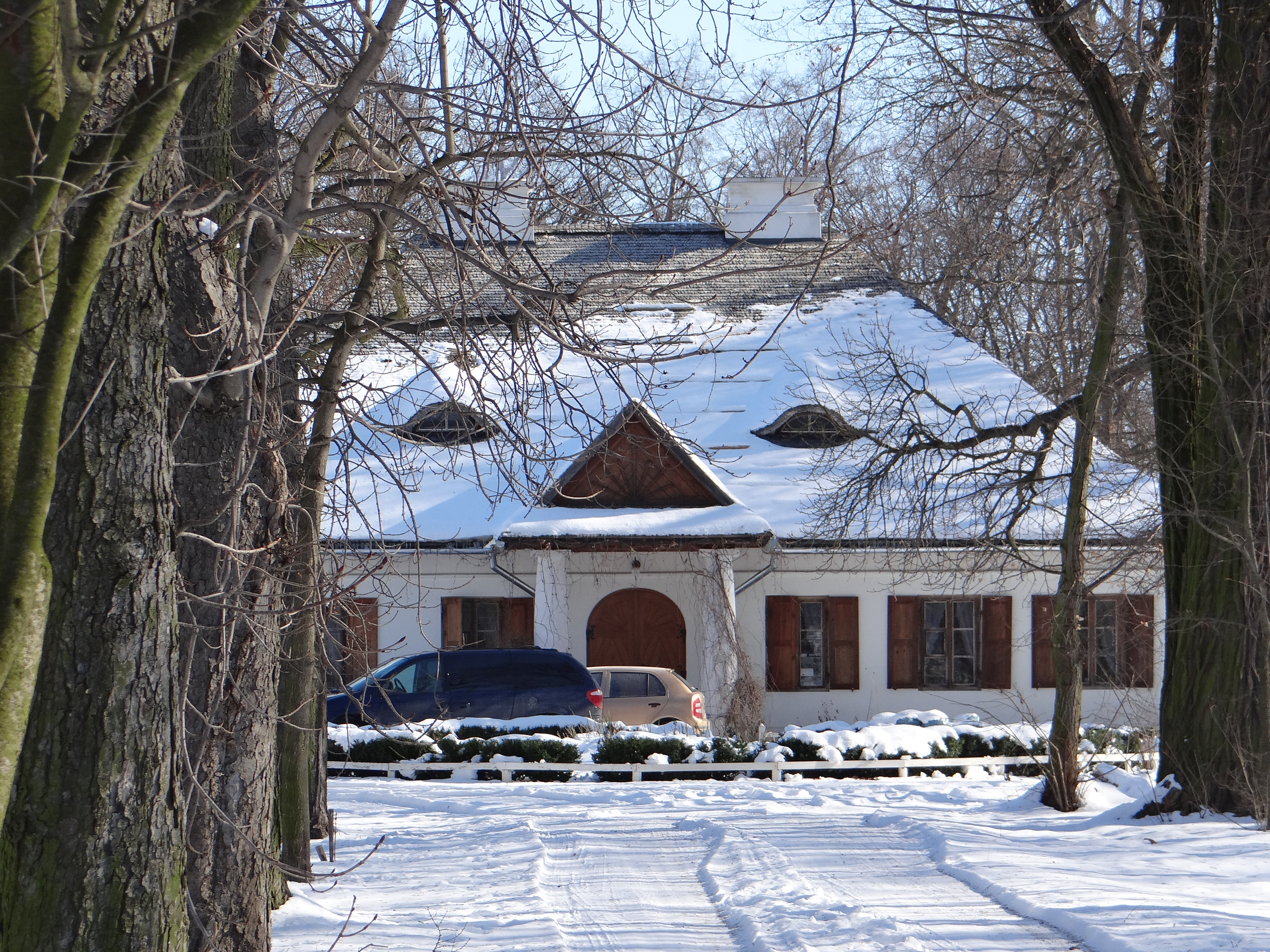 Manor in Sokule